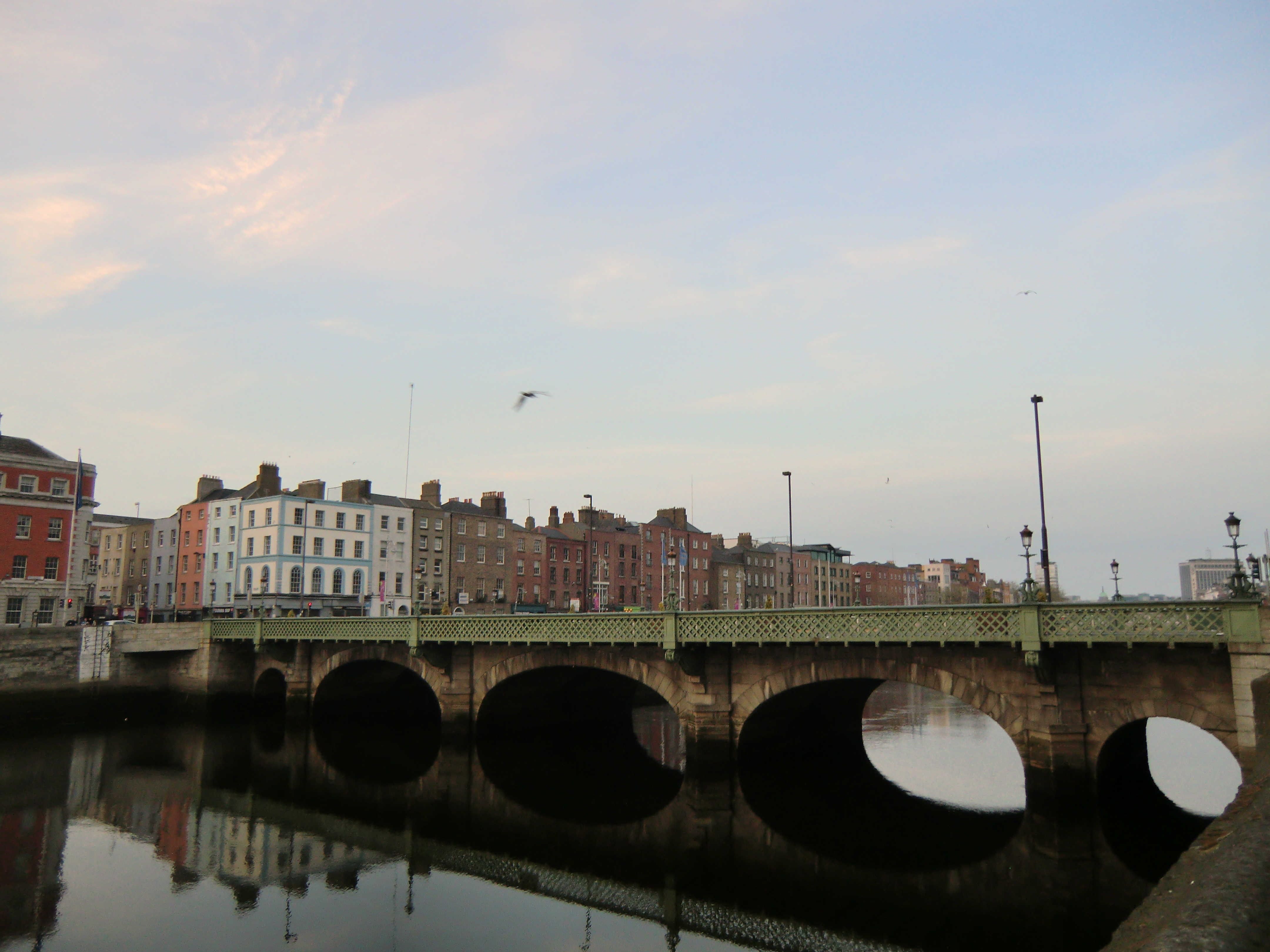 Grattan Bridge, Dublin, Ireland.